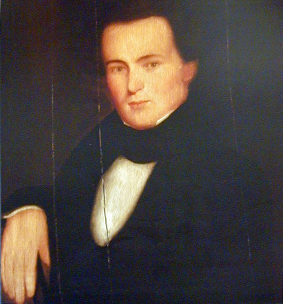 Portrait of Major Ossian M. Ross, pioneer settler in the Military Tract in Illinois, friend of Abraham Lincoln